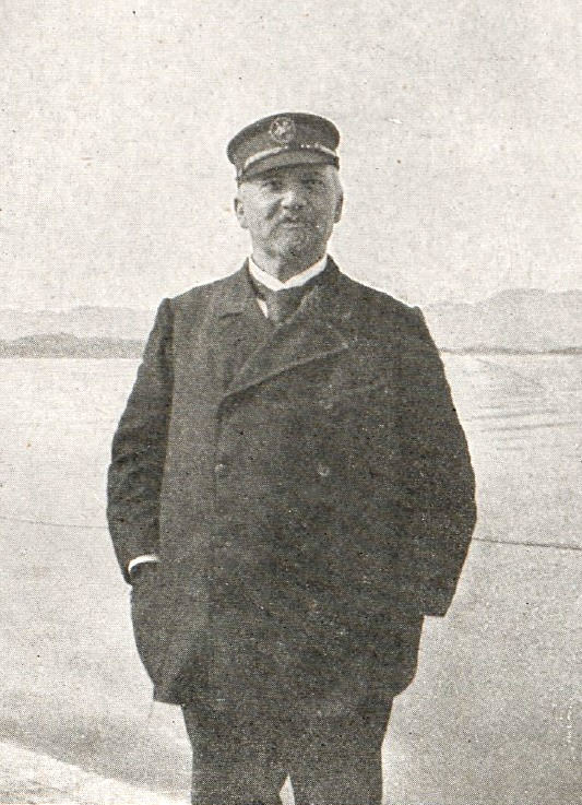 Capt. Wilhelm Bade (1843-1903), pioneer of polar tourism.